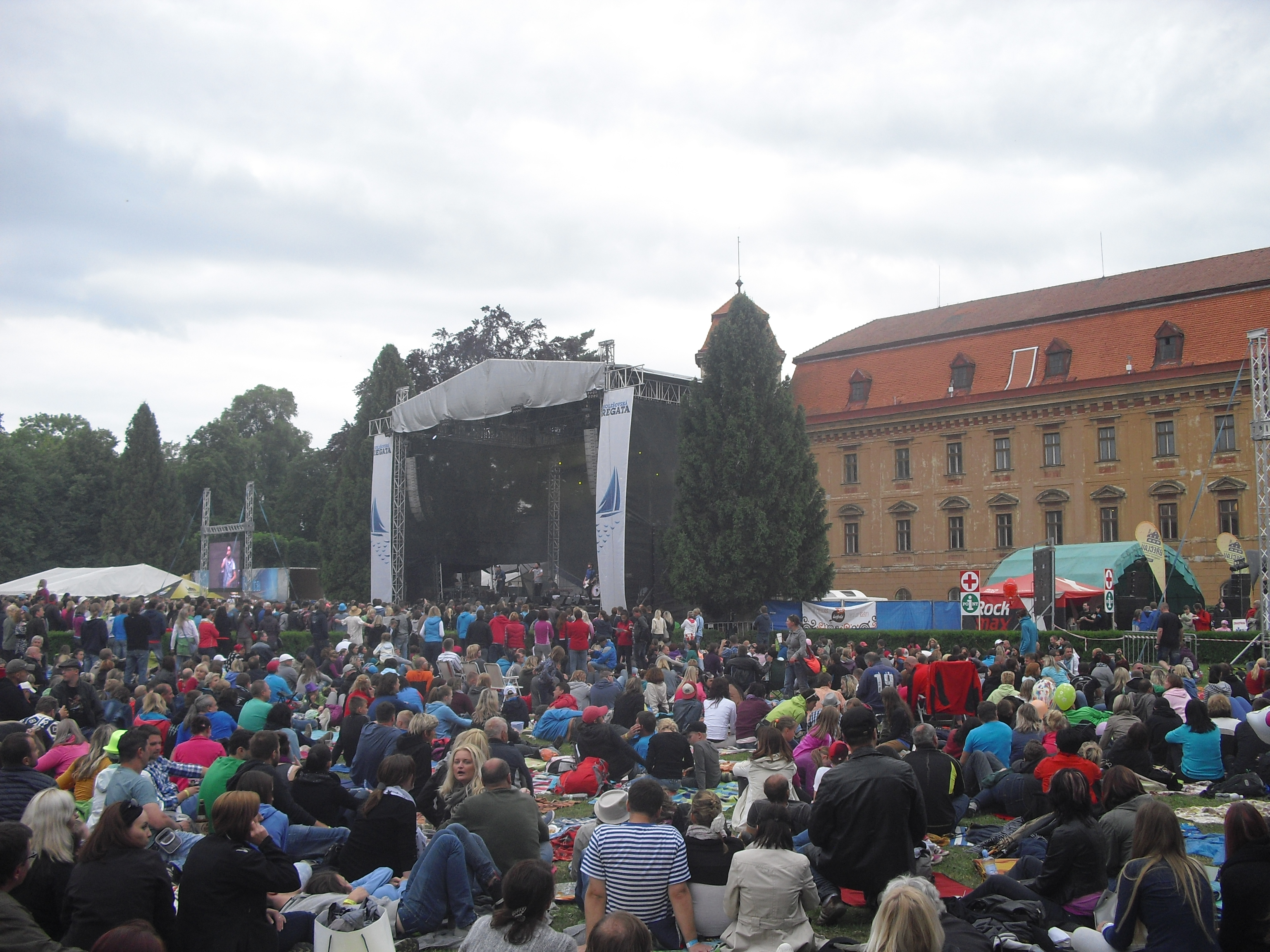 Music band Support Lesbiens at the music festival Holešovská regata 2014, Holešov, Czech Republic.